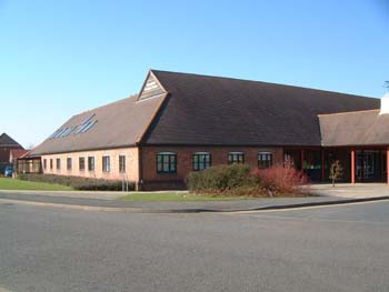 The front of the SCC in Shawbirch